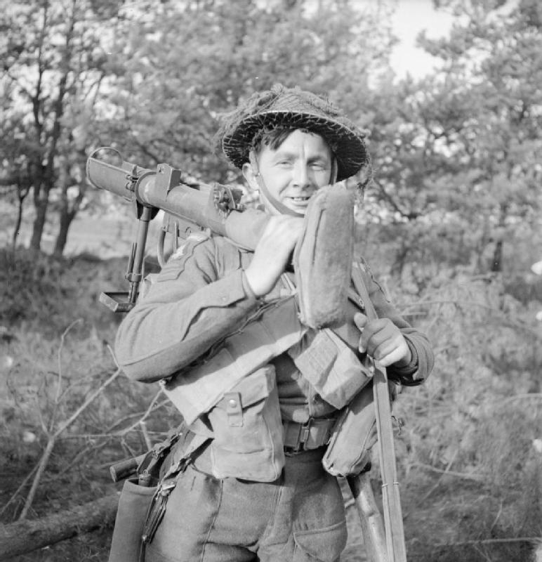 The British Army in North-west Europe 1944-45 A soldier of the 5th Duke of Cornwall's Light Infantry, 43rd (Wessex) Division, carrying a PIAT, 18 November 1944.